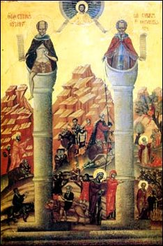 Icon of Simeon Stylites the Elder with Simeon Stylites the Younger. Simeon the Elder appears to be shown at the left stepping down from his pillar in obedience to the monastic elders; the image may also reference a point in his life when, due to an ulcerous leg, he was forced to stand atop his pillar on one leg only.[1] At right is represented Simeon Stylites the Younger (also known as 'St. Simeon of the Admirable Mountain').